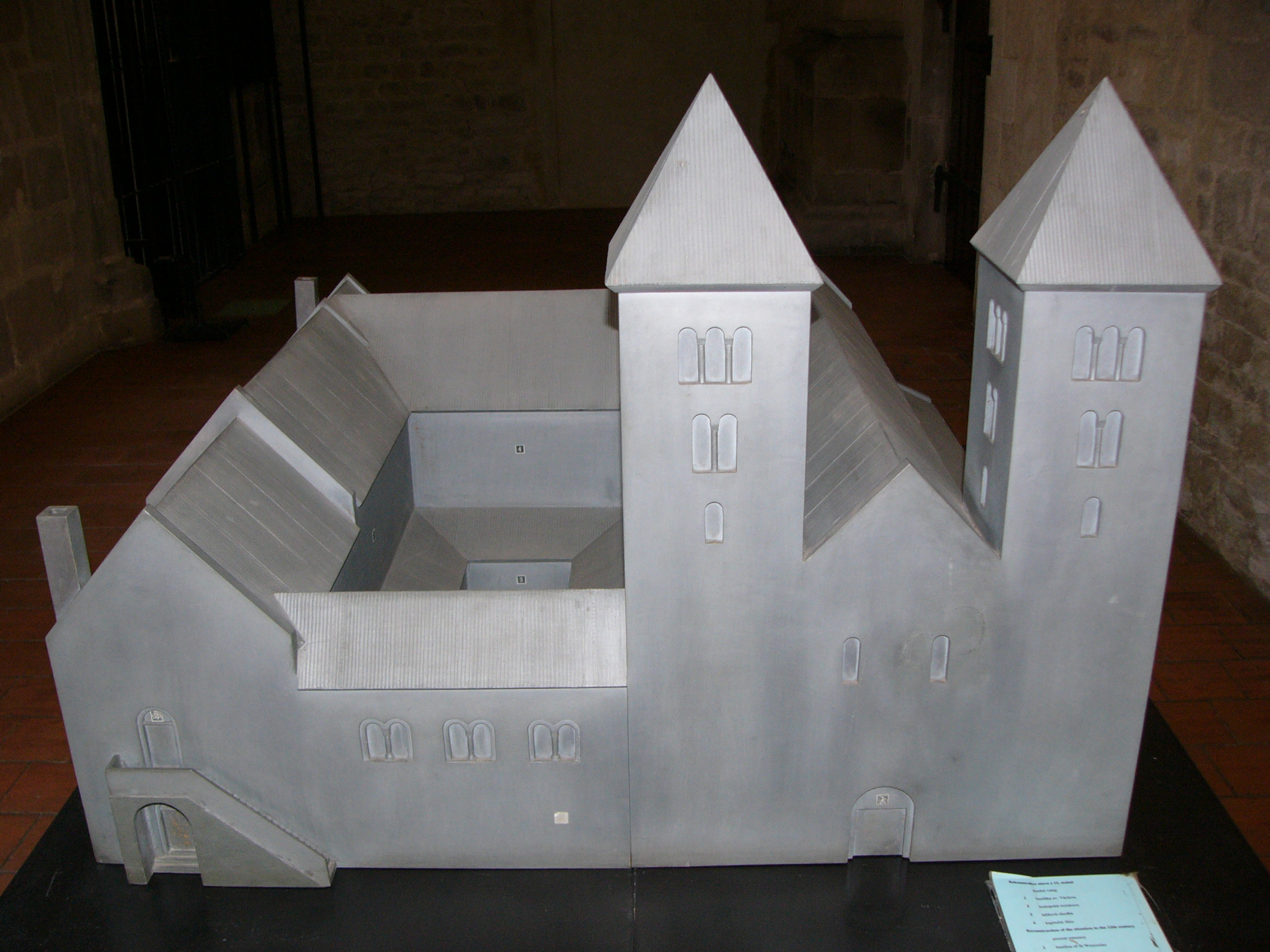 Jindrich Zdik´s Palace and church of Saint Wenceslaus in Olomouc, The Czech Republic